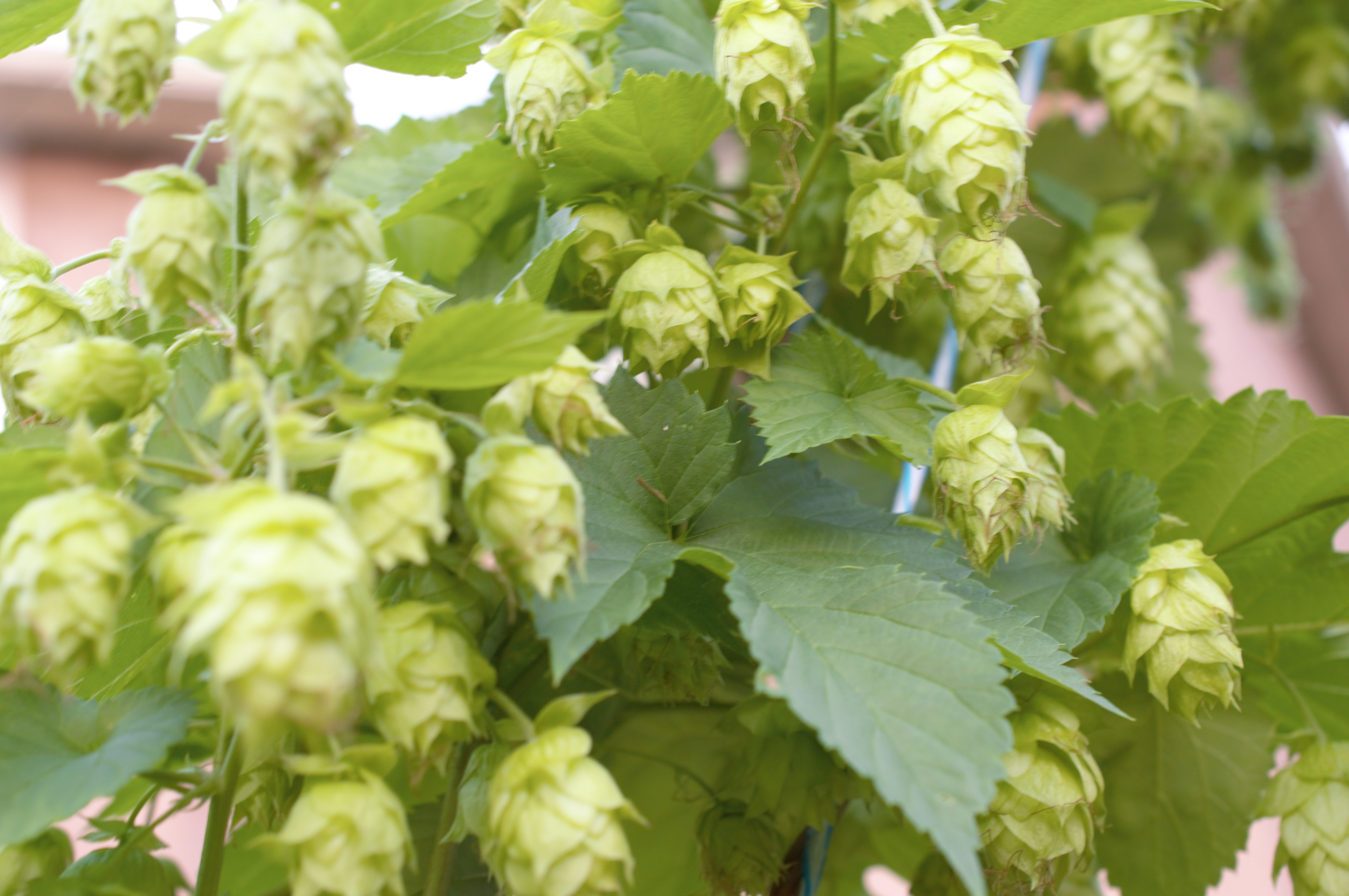 CHINOOK HOPS on the Vine